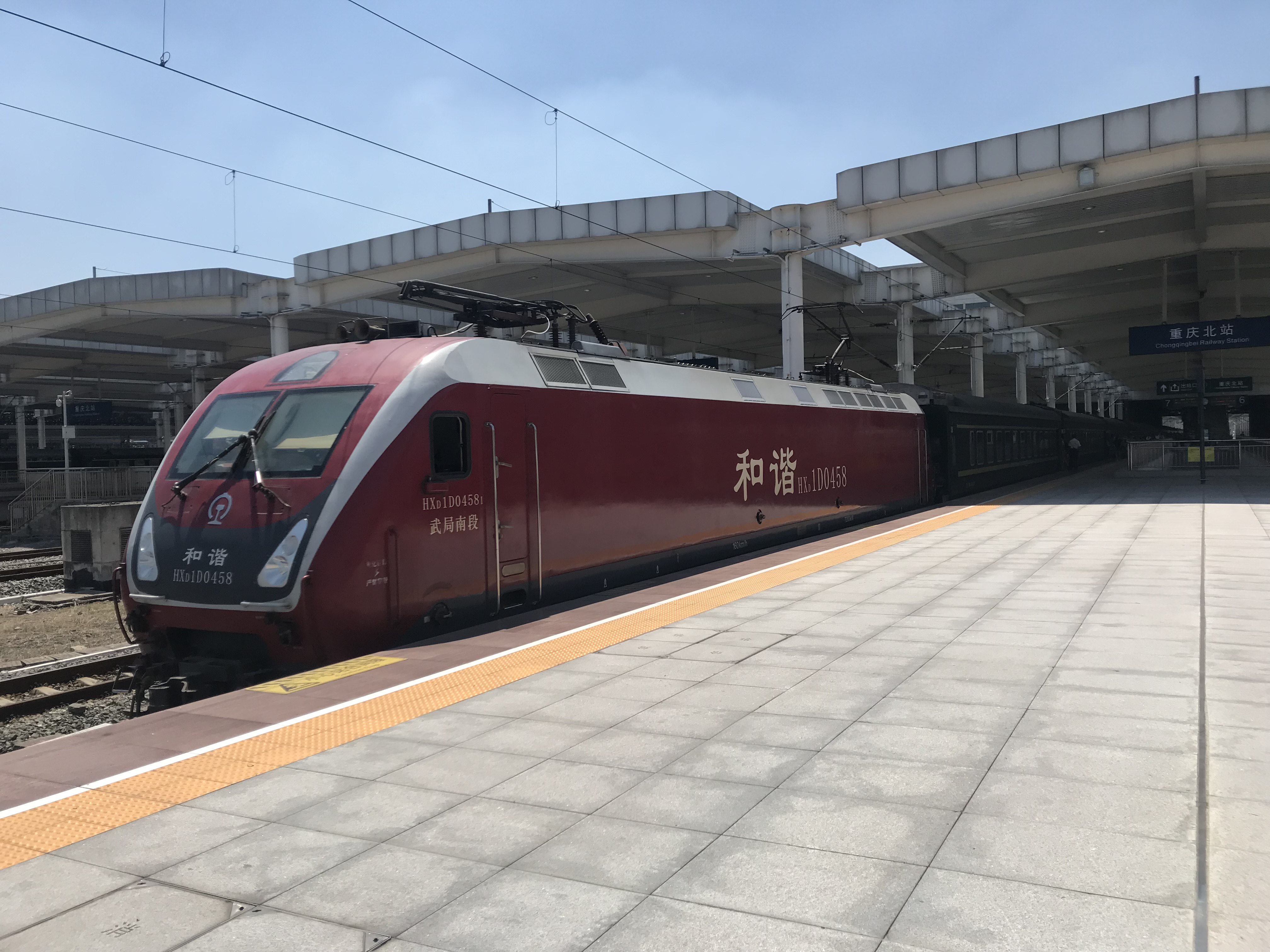 Z258 from Chongqingbei to Shanghainan